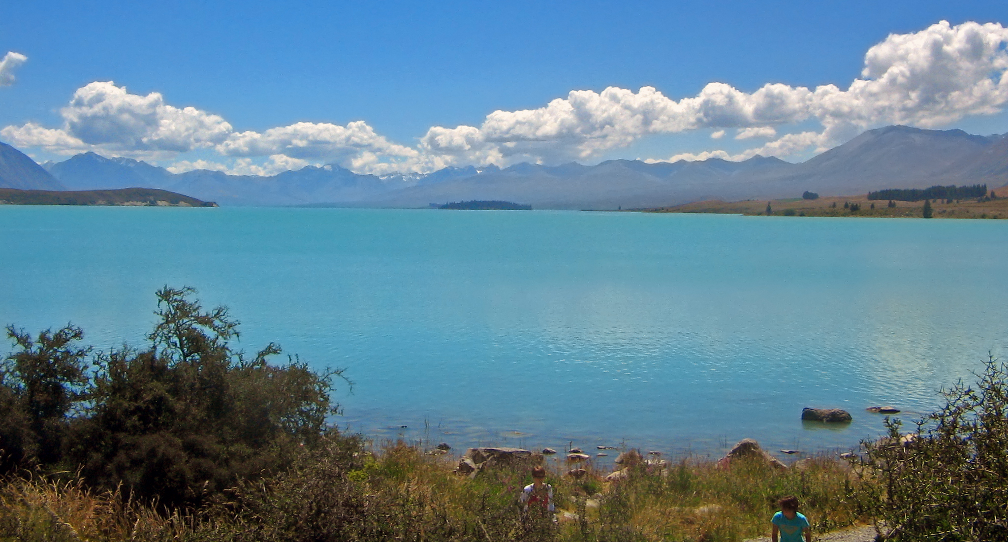 Lake Tekapo and Mount Cook, NZ, in middle of range at rear.